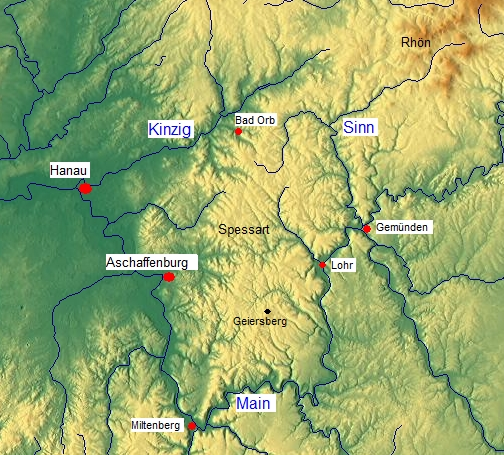 Map of the Spessart in Germany